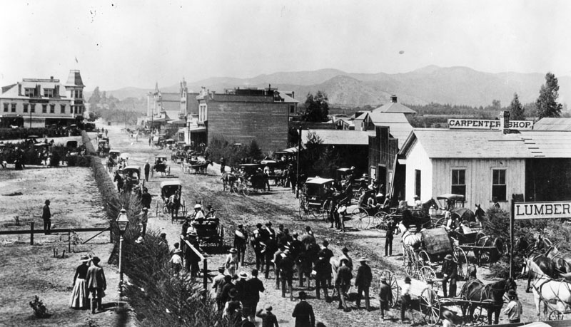 September 30, 1886. View new Los Angeles and San Gabriel Valley Railroad with a parade, On the right there is a Lumber yard and a Carpenter's shop. Large building in the distance (left side), is the Ward Block, which includes the Pasadena Bank and the Grand Hotel.